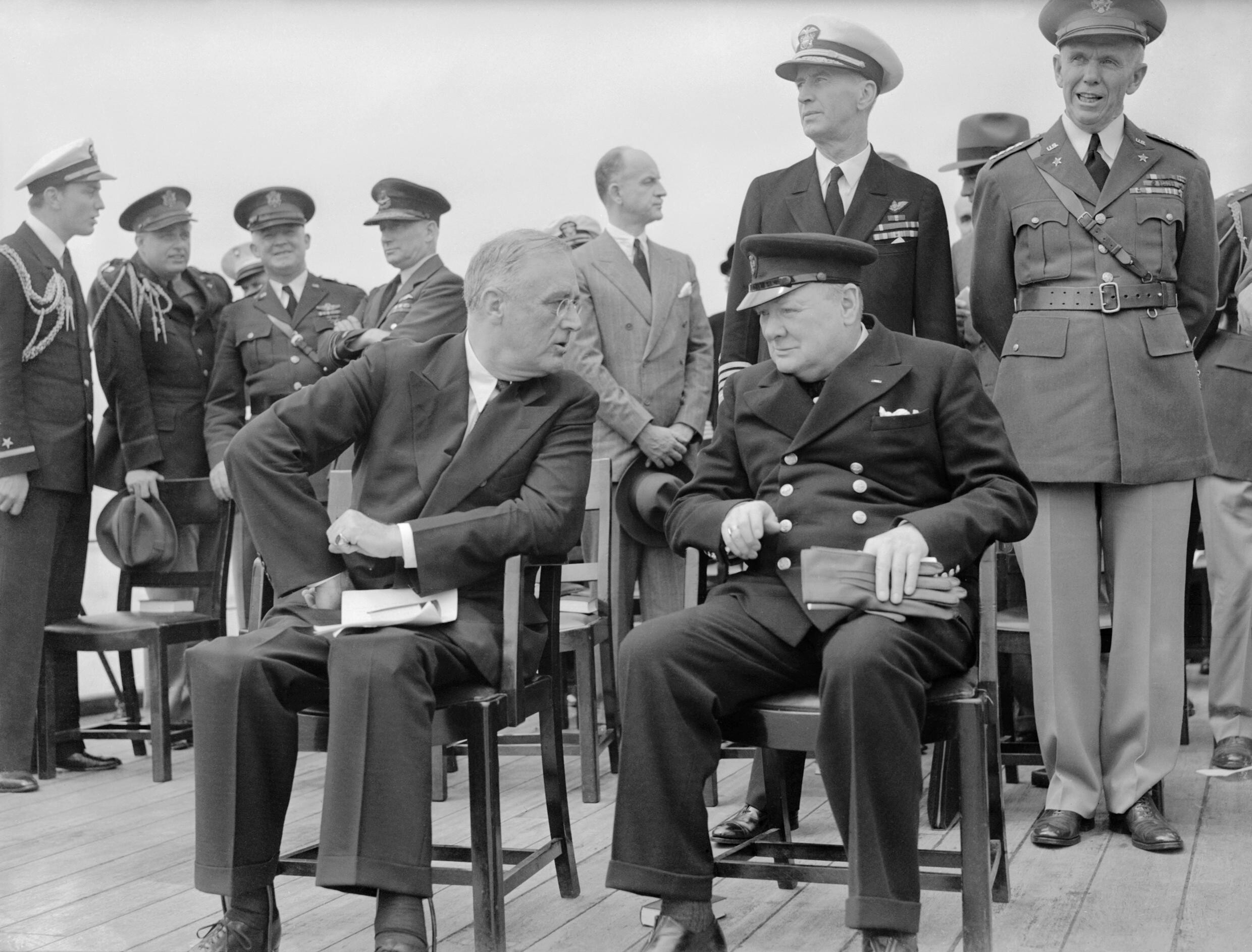 President Roosevelt and Winston Churchill seated on the quarterdeck of HMS Prince of Wales for a Sunday service during the Atlantic Conference, 10 August 1941. The President of the United States, Franklin D Roosevelt, and the Prime Minister of the United Kingdom, Winston Churchill are seated on the Quarterdeck of HMS Prince of Wales. They are chatting following a Sunday service, during the Atlantic Conference, 10 August 1941. Immediately behind them are Admiral E J King, USN and General Marshall, US Army. The President's sons, Ensign Franklin Roosevelt Jr USNR and Captain Elliot Roosevelt USAAF, along with General Arnold, USAAF, Air Chief Marshal Sir Wilfred Freeman RAF are conversing to the left of the image.